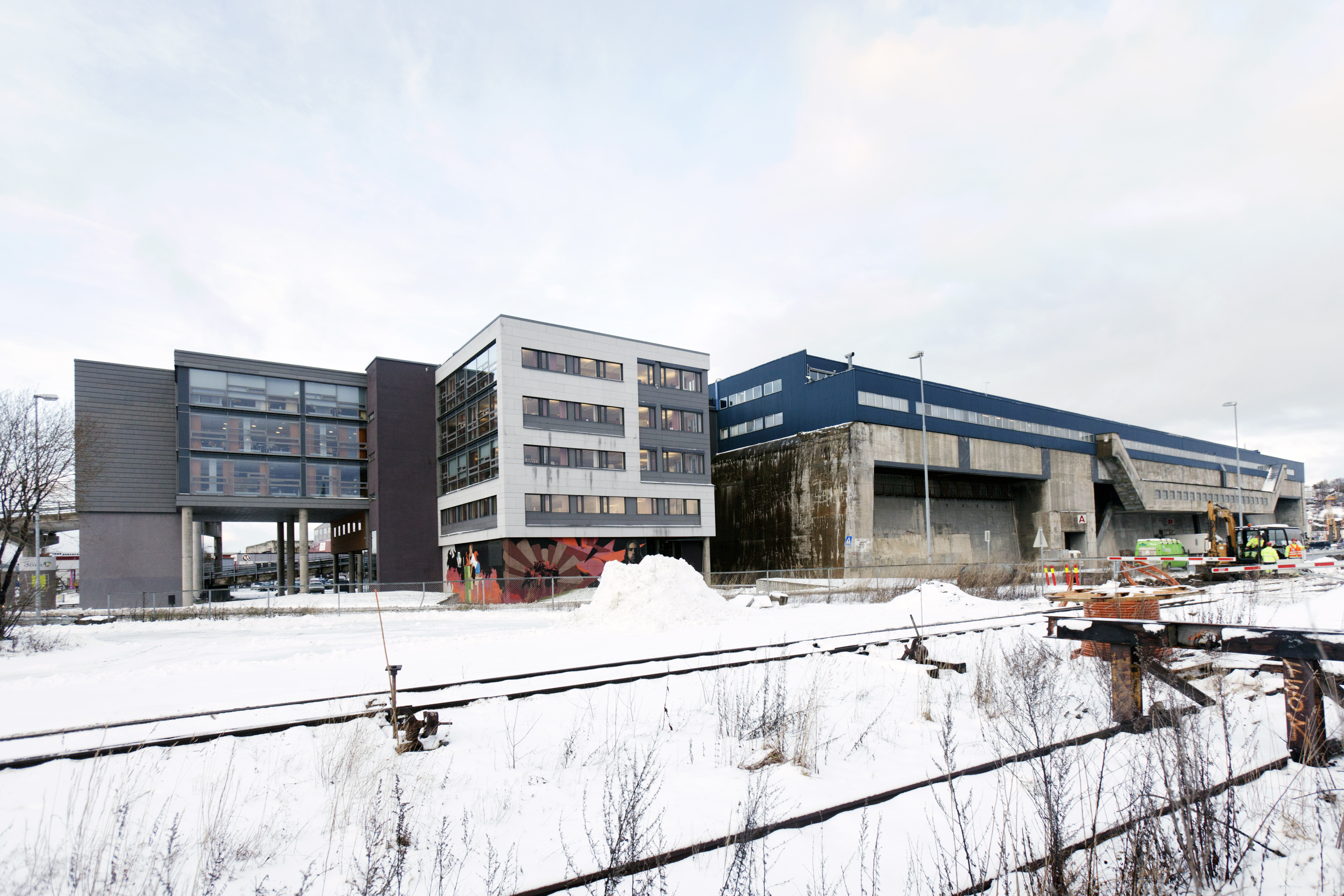 The German submarine bunker DORA from World War 2 - in Trondheim, Norway. The bunker to the right. The other parts of the building are much more recent additions. The building now serves as an archive center for municipal, university library and museums.